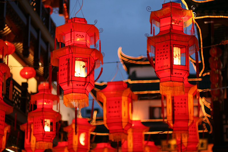 Lantern of Yuyuan Shopping Center, Shanghai, China.